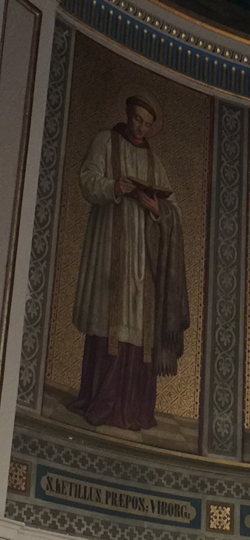 Image of old artwork in a church in Copenhagen (not copyrighted).